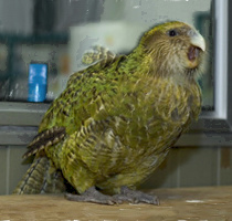 Sirocco guards the hut in the 2008 breeding season. An adult male Kākāpō (Strigops habroptila), Sirocco, was born in 1997 and hand-raised. Please credit author Darren Scott wherever possible.